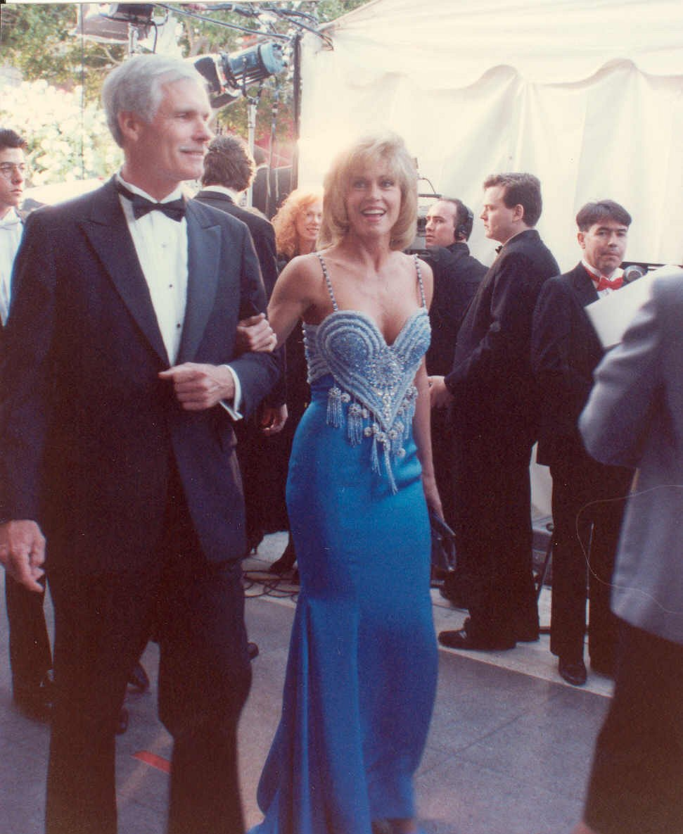 Ted Turner and Jane Fonda on the red carpet at the 62nd Annual Academy Awards